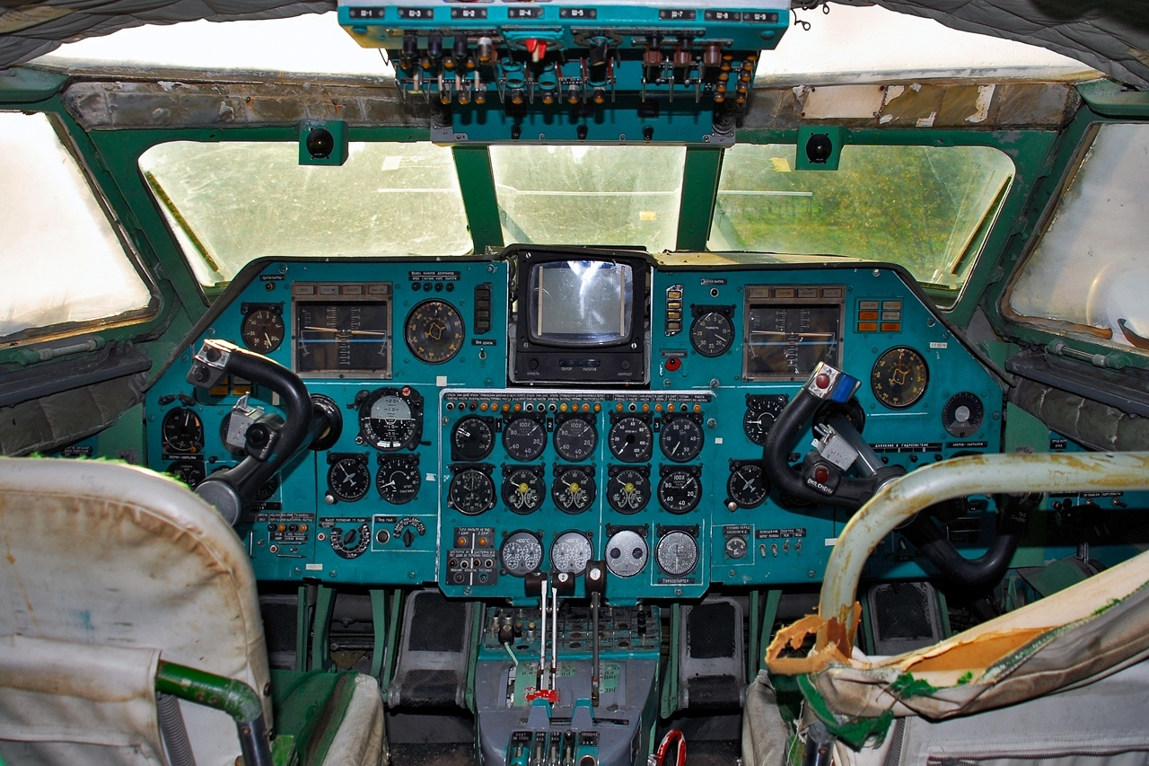 Cockpit of the A-90 Orlyonok ground effect vehicle